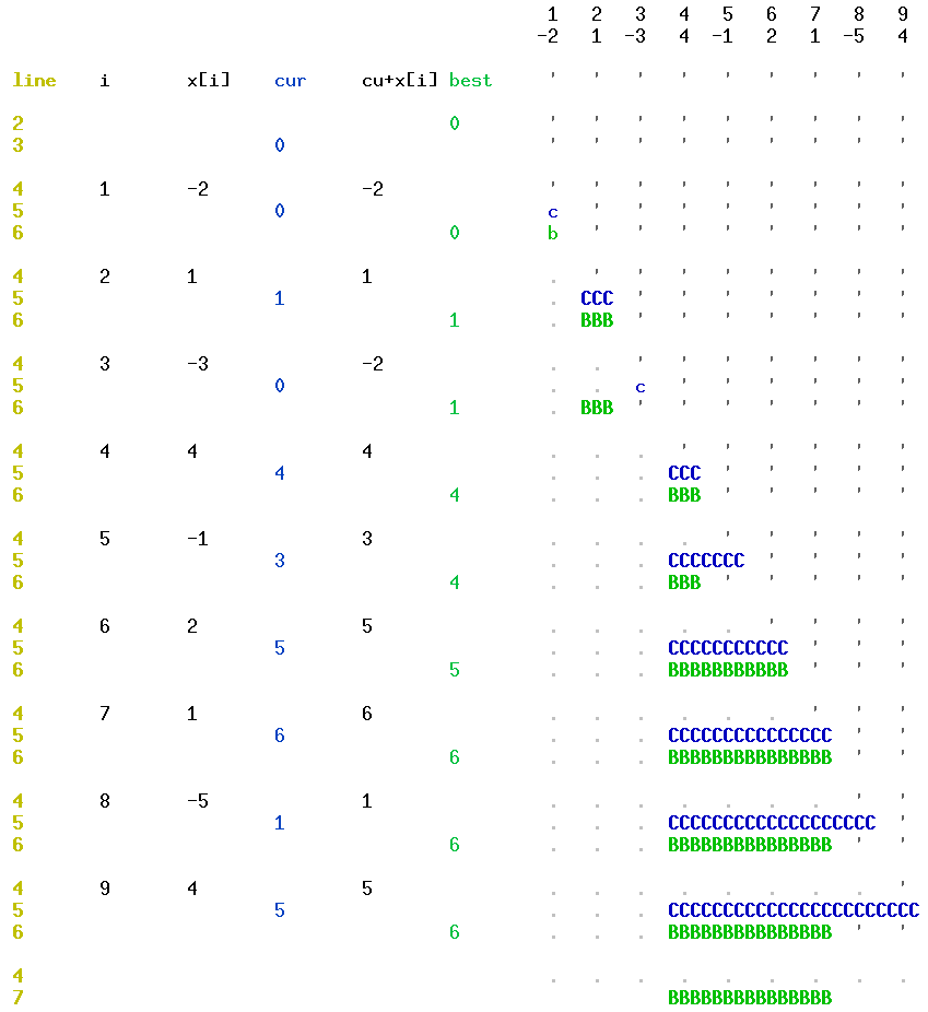 Execution trace of Kadane's algorithm on the array [−2,1,−3,4,−1,2,1,−5,4]